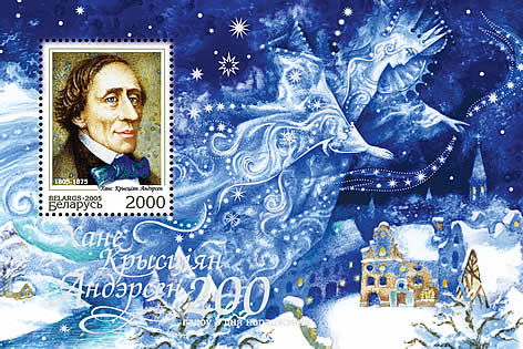 Stamp of Belarus